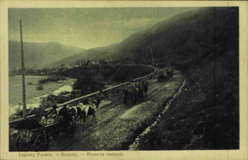 1st Brigade, Polish Legions